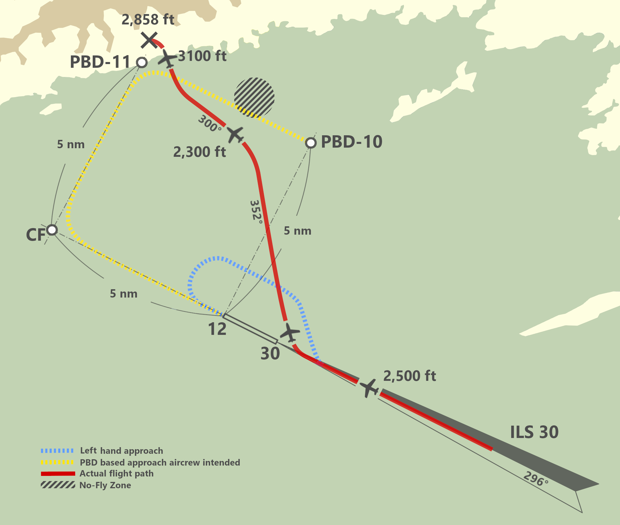 This diagram, based on official investigation report by Pakistan Civil Aviation Authority (CAA) roughly describes final path of the flight (red line), recommended track (blue lines), and the non-standard track that is presumed aircrew intended to fly (dashed yellow line). Please note this is not the accurately plotted map.